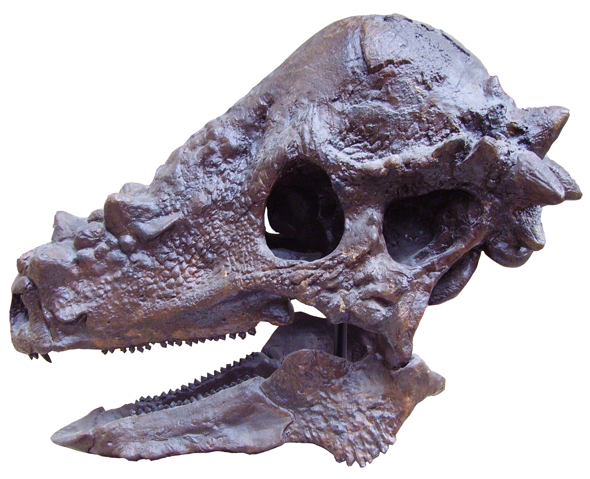 Skull of Pachycephalosaurus at the Oxford University Museum of Natural History.